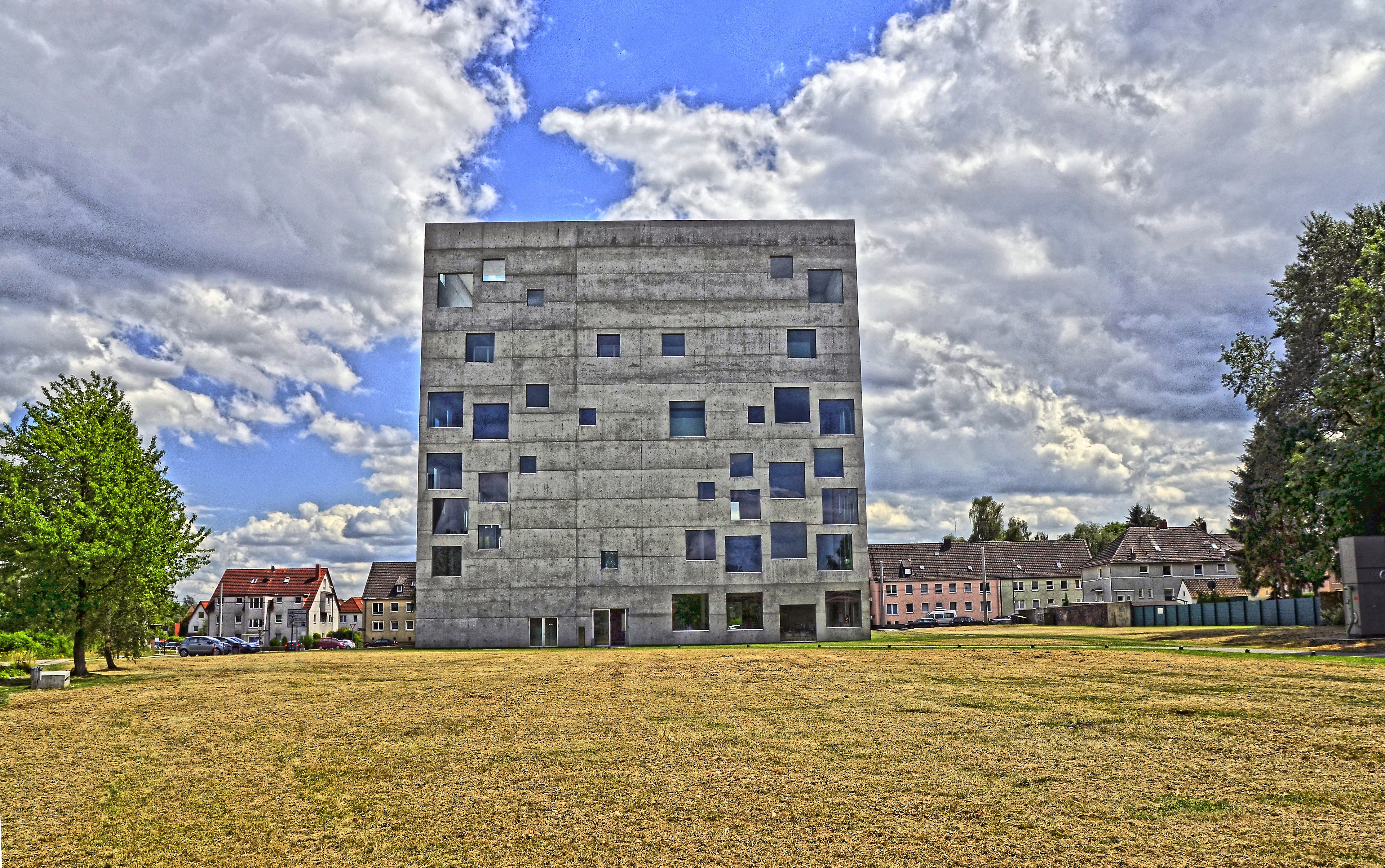 Zollverein Coal Mine industrial complex in Essen (Germany) - Sanaa-Building